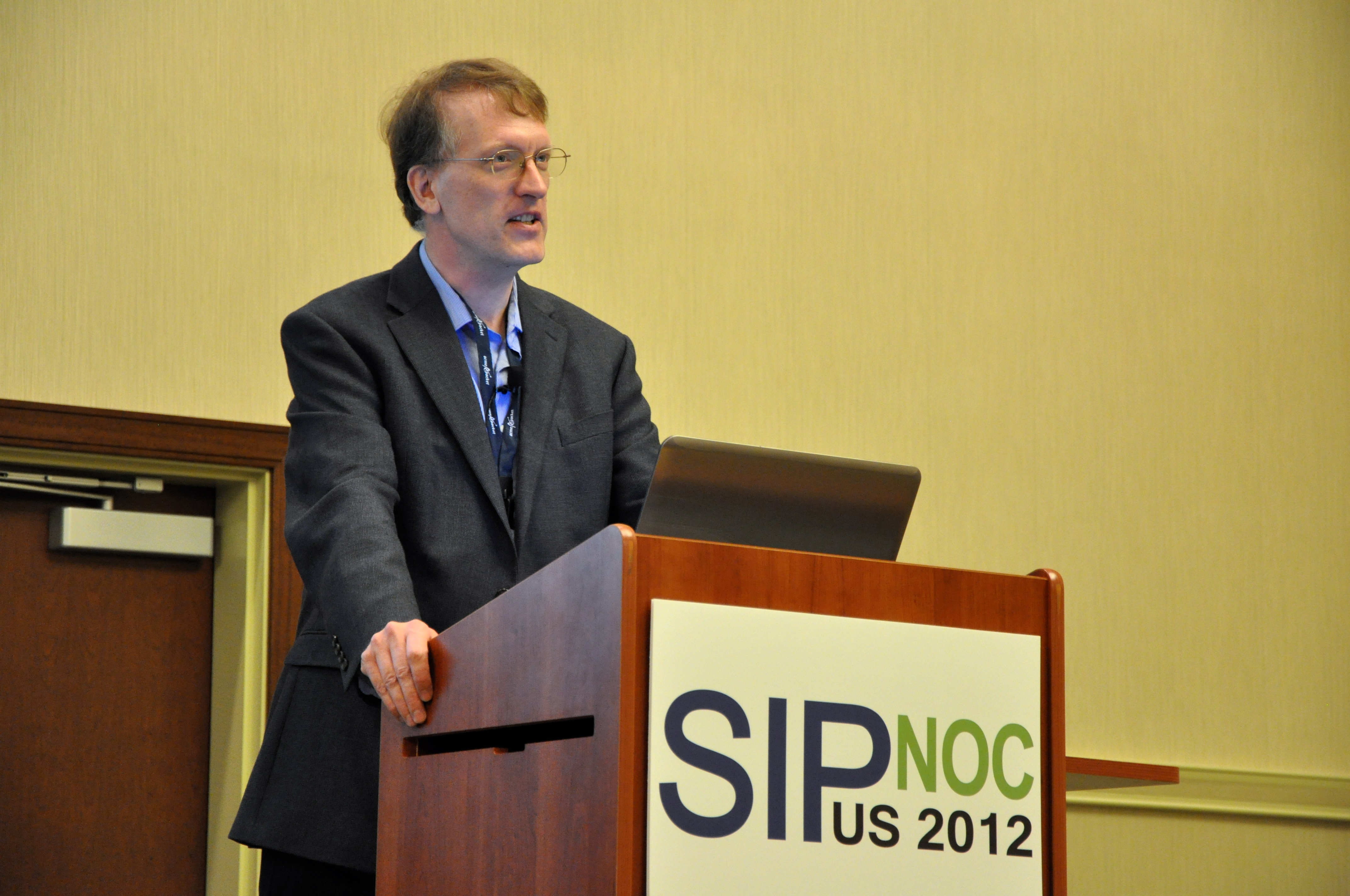 Photos from the SIP Network Operators Conference (SIPNOC) held in June 2012 in Reston, VA, USA. For more information, please visit Permission is granted to use the photo in other content provided that a link is made back to the photo here. If you are in the photo and wish a copy of the original image file, please contact Dan York